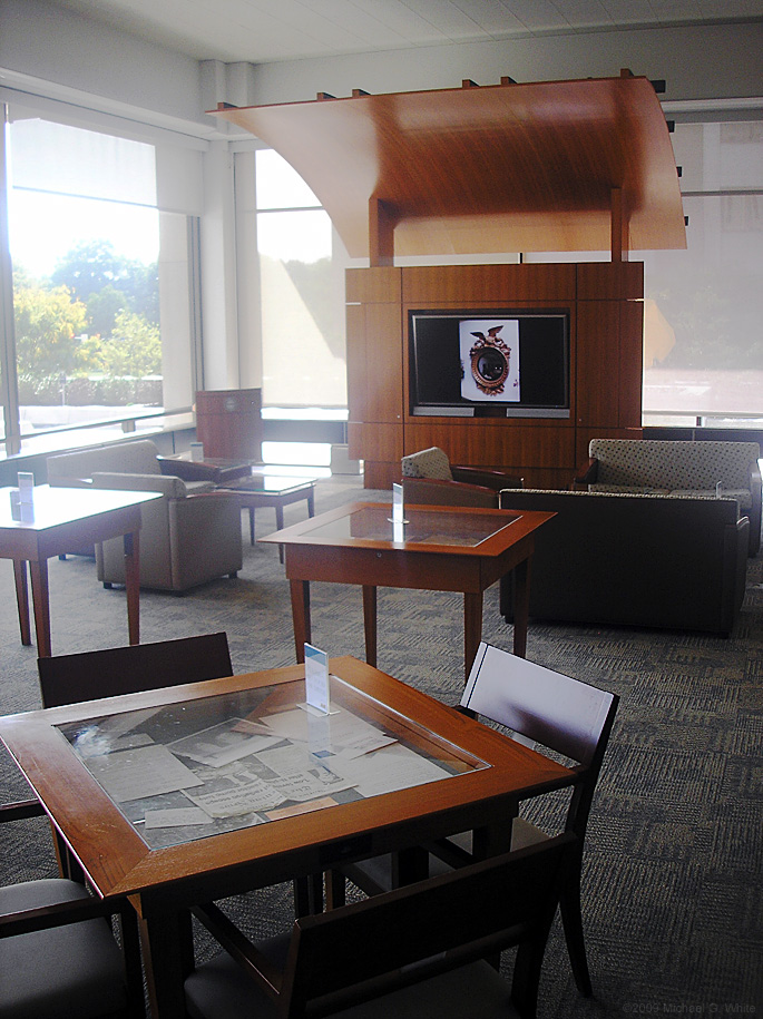 The Dick Thornburgh Room in Hillman Library at the University of Pittsburgh houses the Dick Thornburgh Archive Collection.